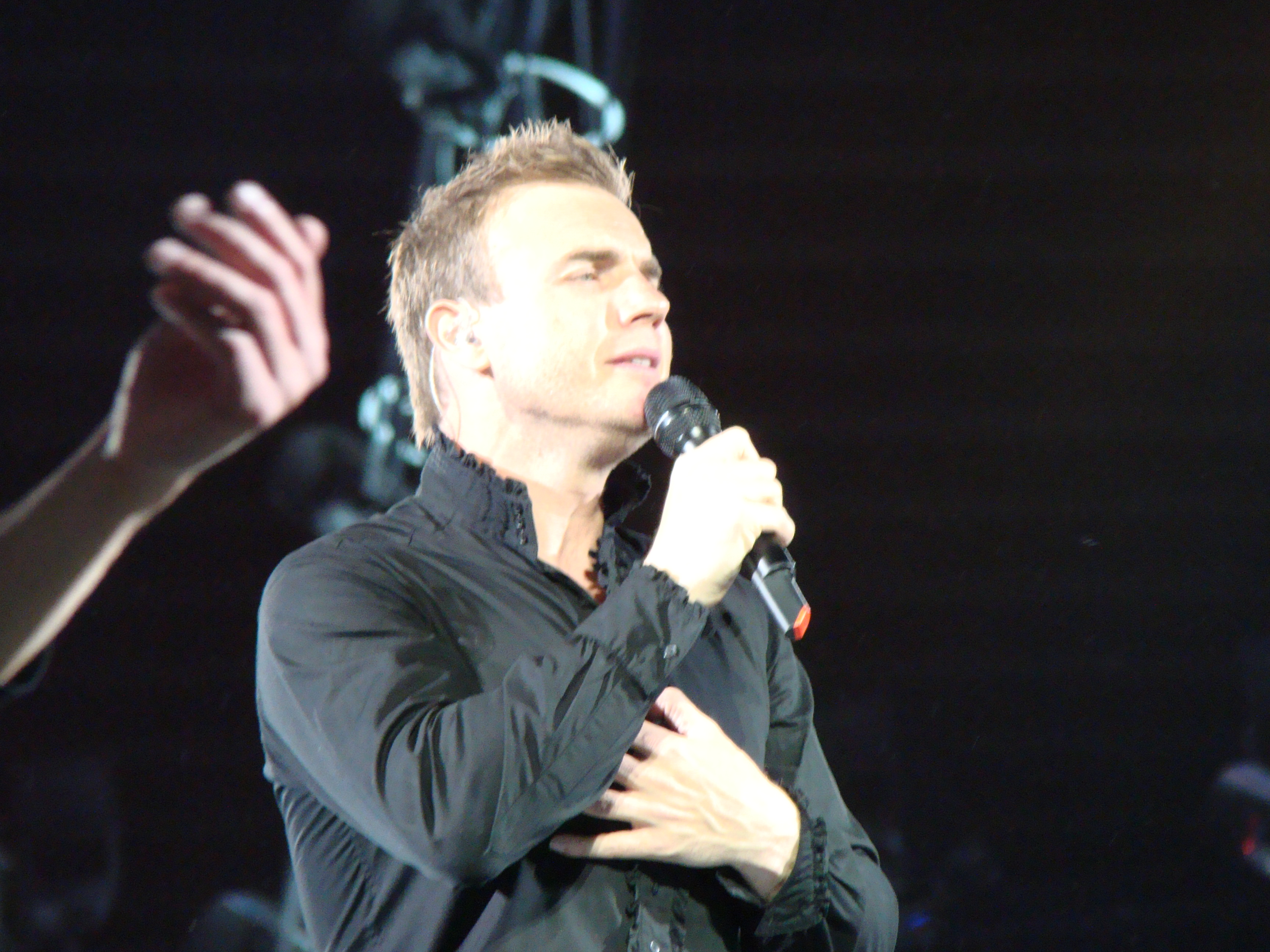 Gary Barlow onstage in 06/06/2009 in Sunderland at a Take That concert.